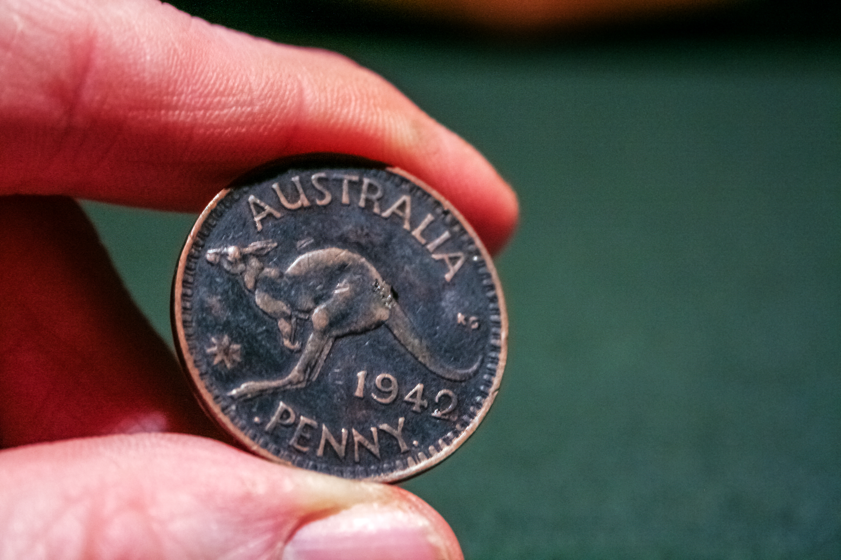 Reverse of the pre-decimal 1942 Australian penny.